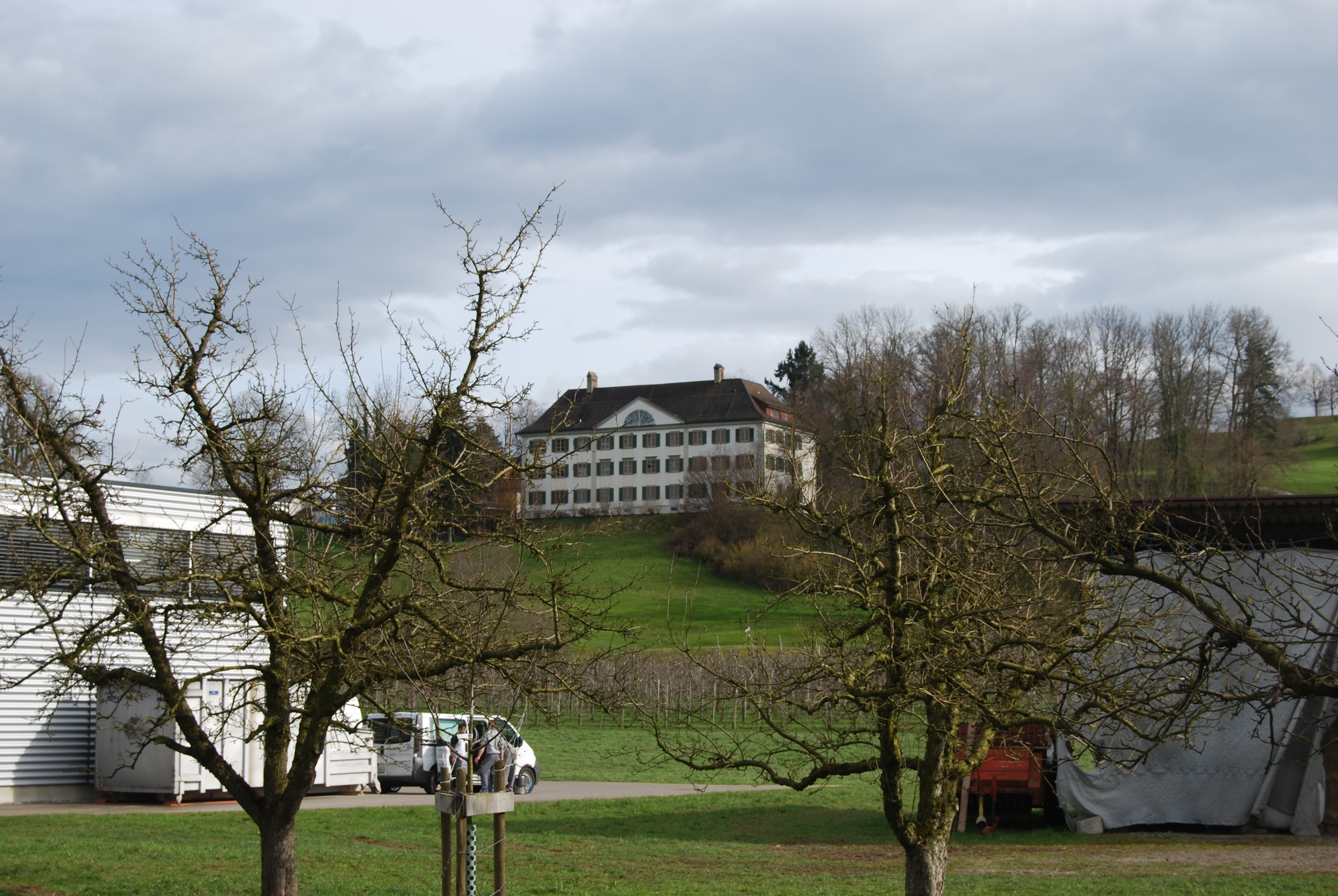 Castle Eppishausen, canton of Thurgovia, Switzerland